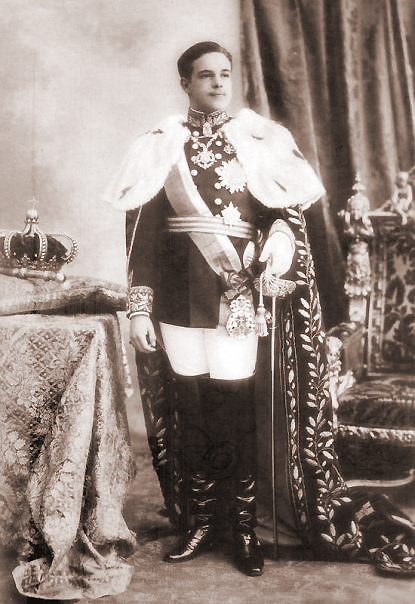 The King D. Manoel II